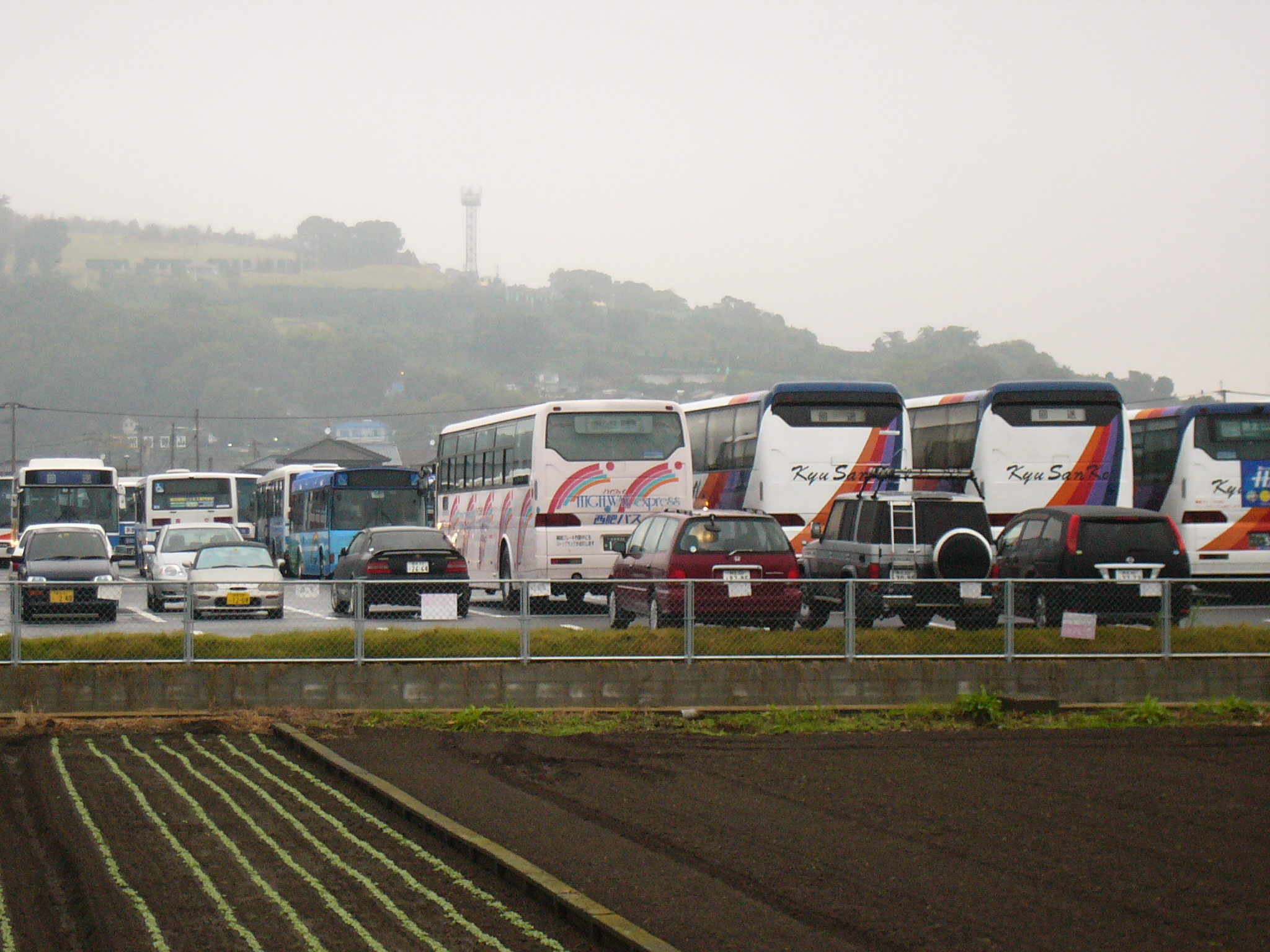 Scenery in Kyusyusankobus-kumamotooffice